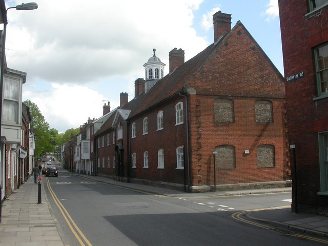 Salisbury, Frowd's Almshouses Solid looking almshouses on Bedwin Street. A plaque records that they were "Built and Endow'd by the Liberality of Mr EDWARD FROWD. Mercht. late of this City. 1750". English Heritage-listed